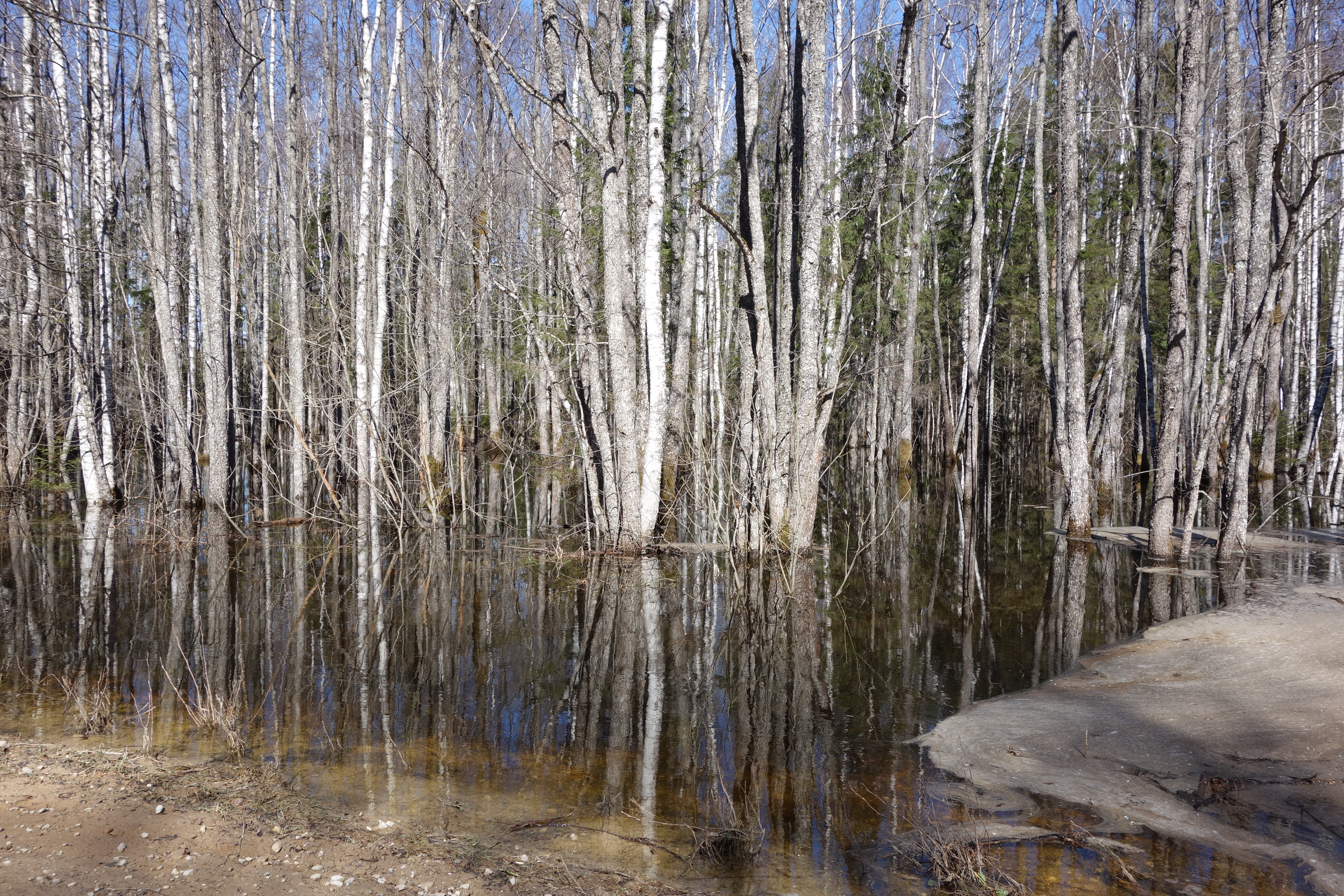 Flood in Soomaa